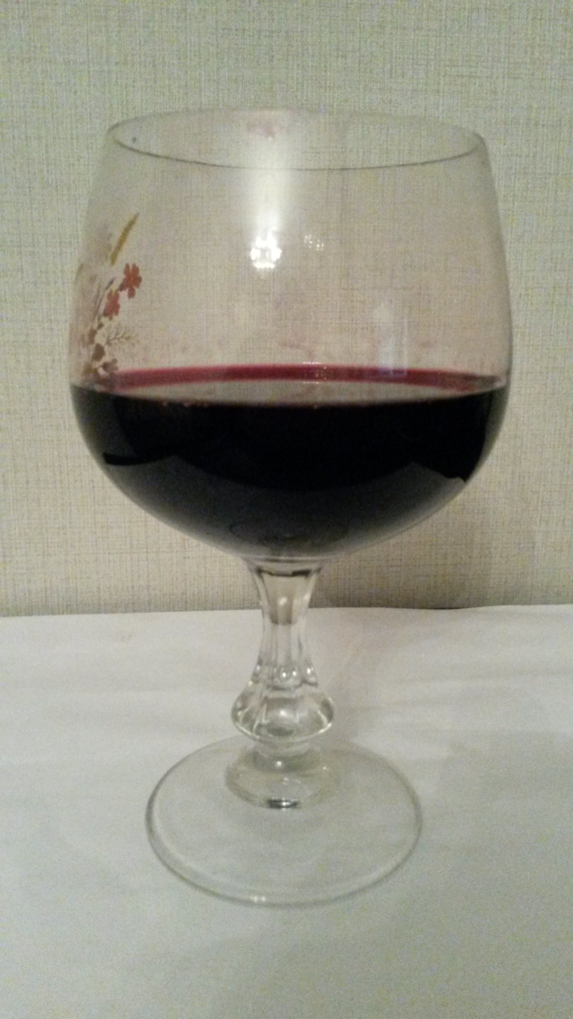 Wine,Saperavi,Georgian Wine